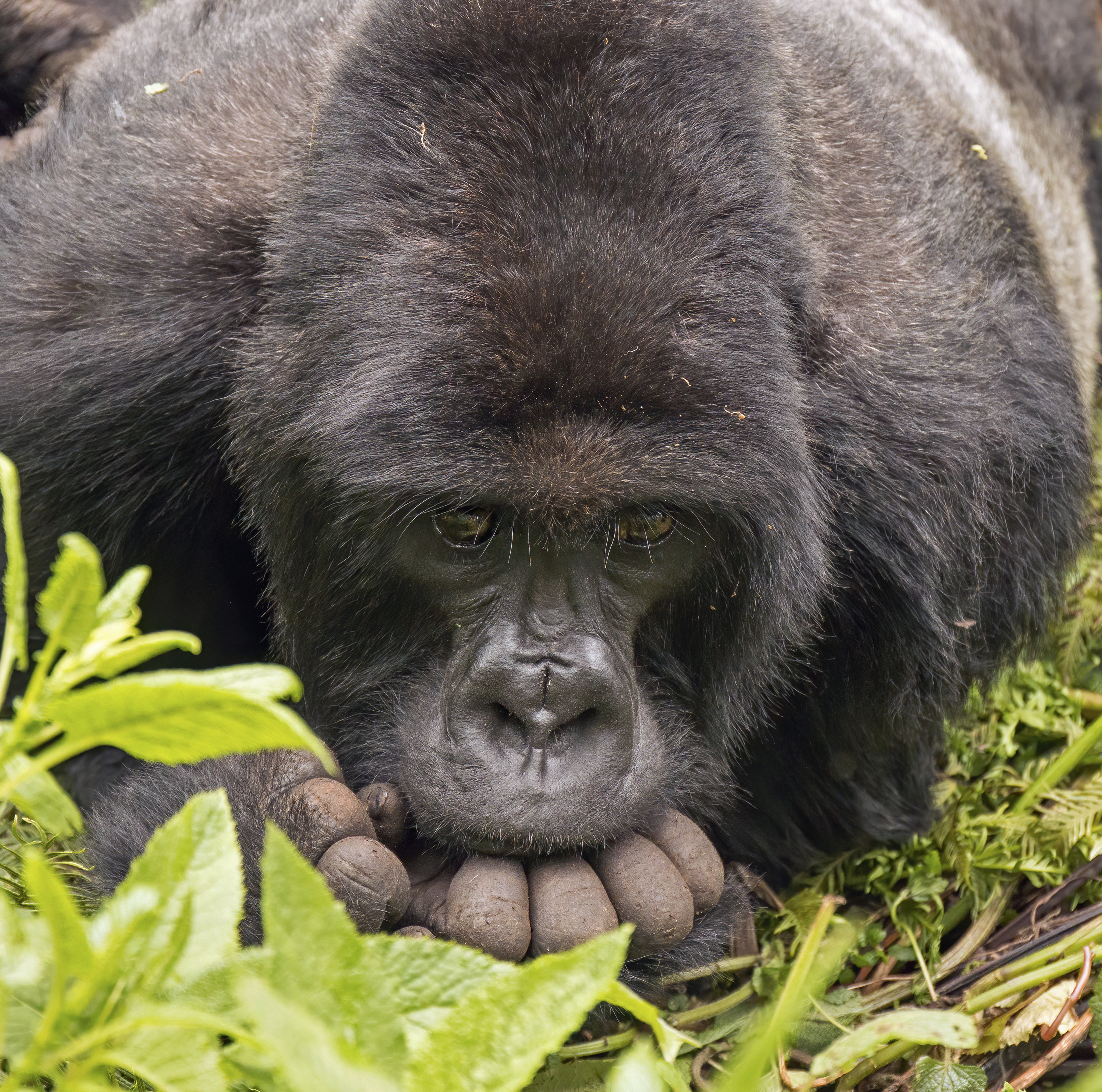 Mountain gorilla (Gorilla beringei beringei) , Titus Group, Rwanda